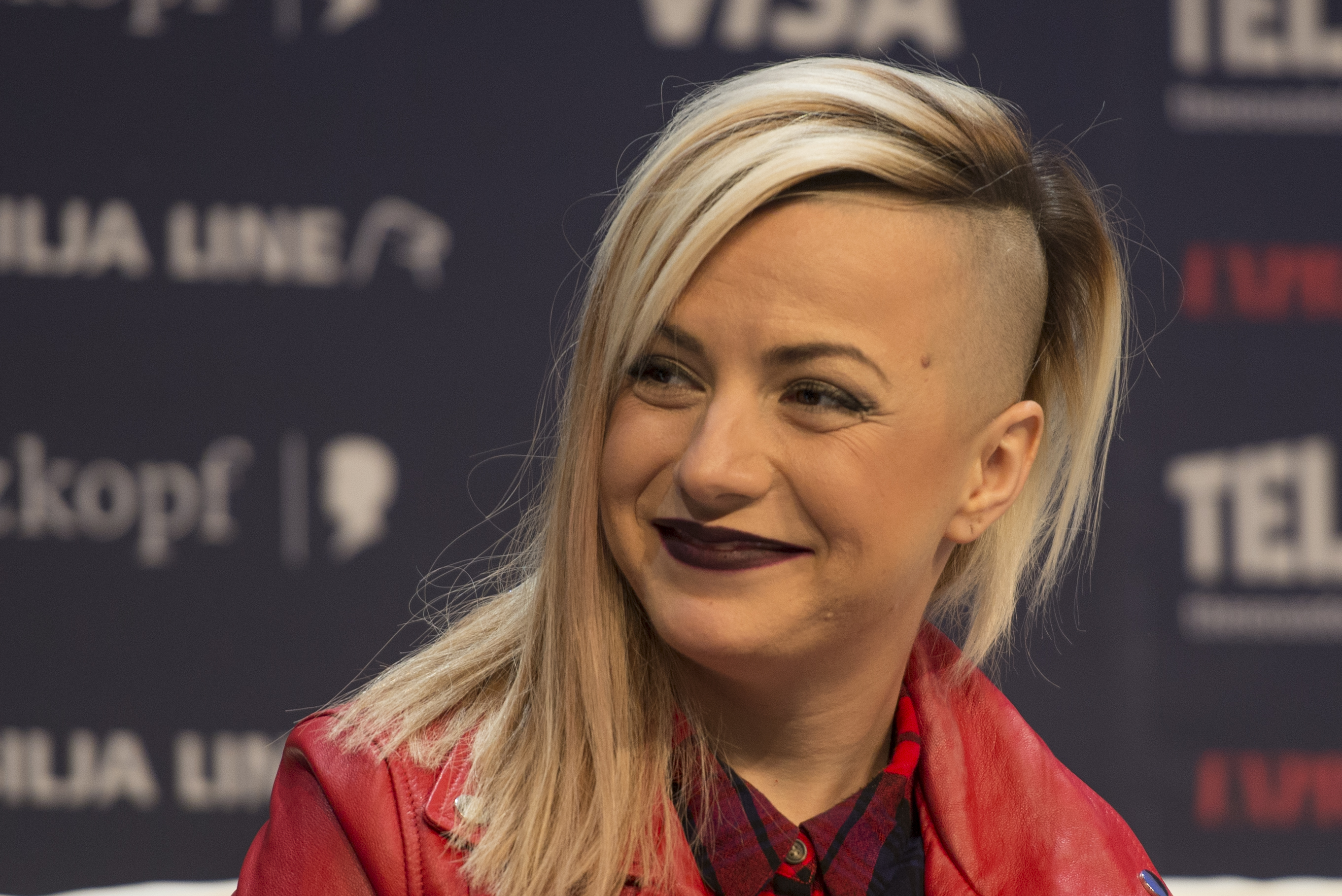 Poli Genova at a Meet & Greet during the Eurovision Song Contest 2016 in Stockholm. (Help translate this text)